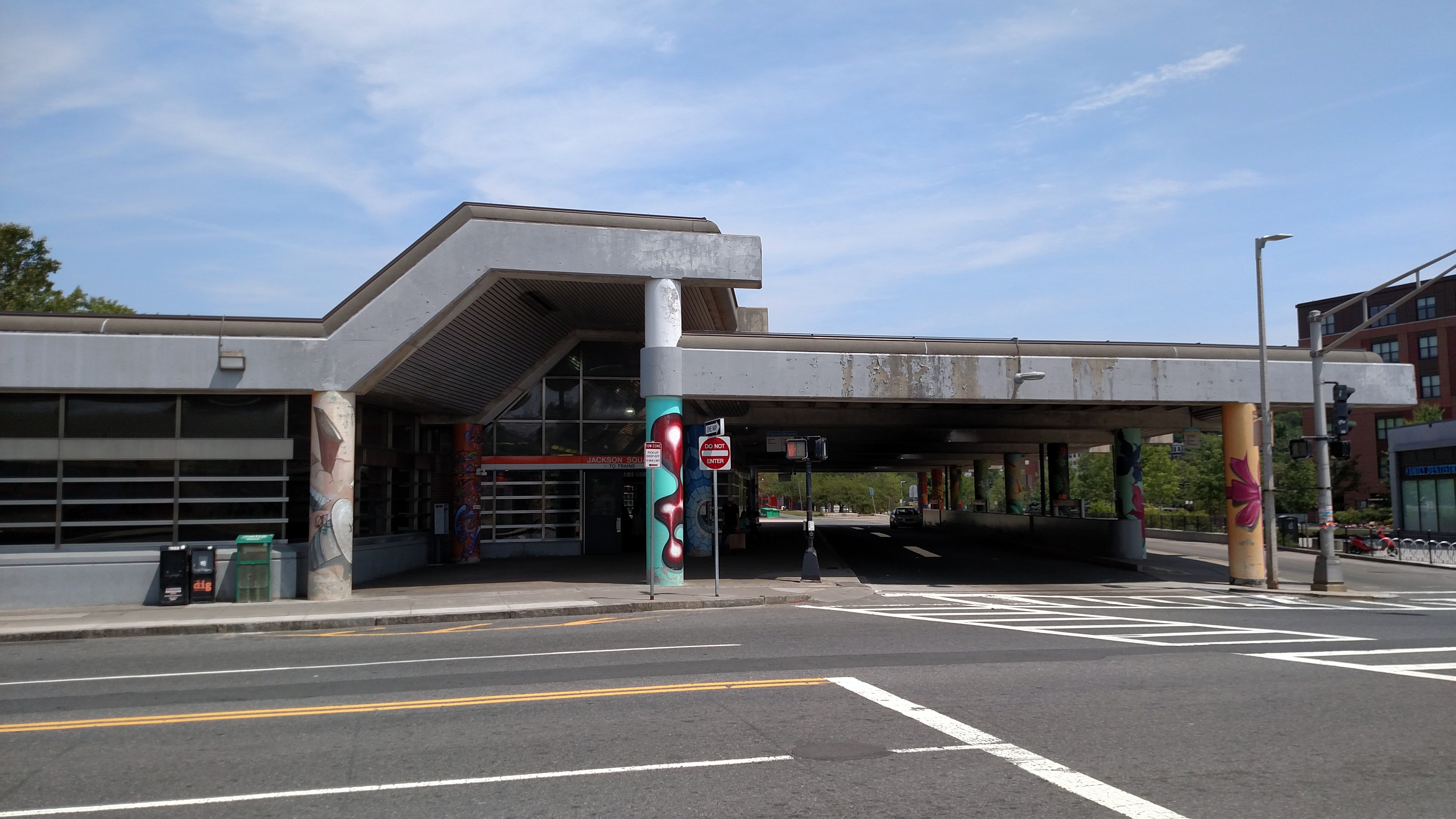 Jackson Square station in July 2016